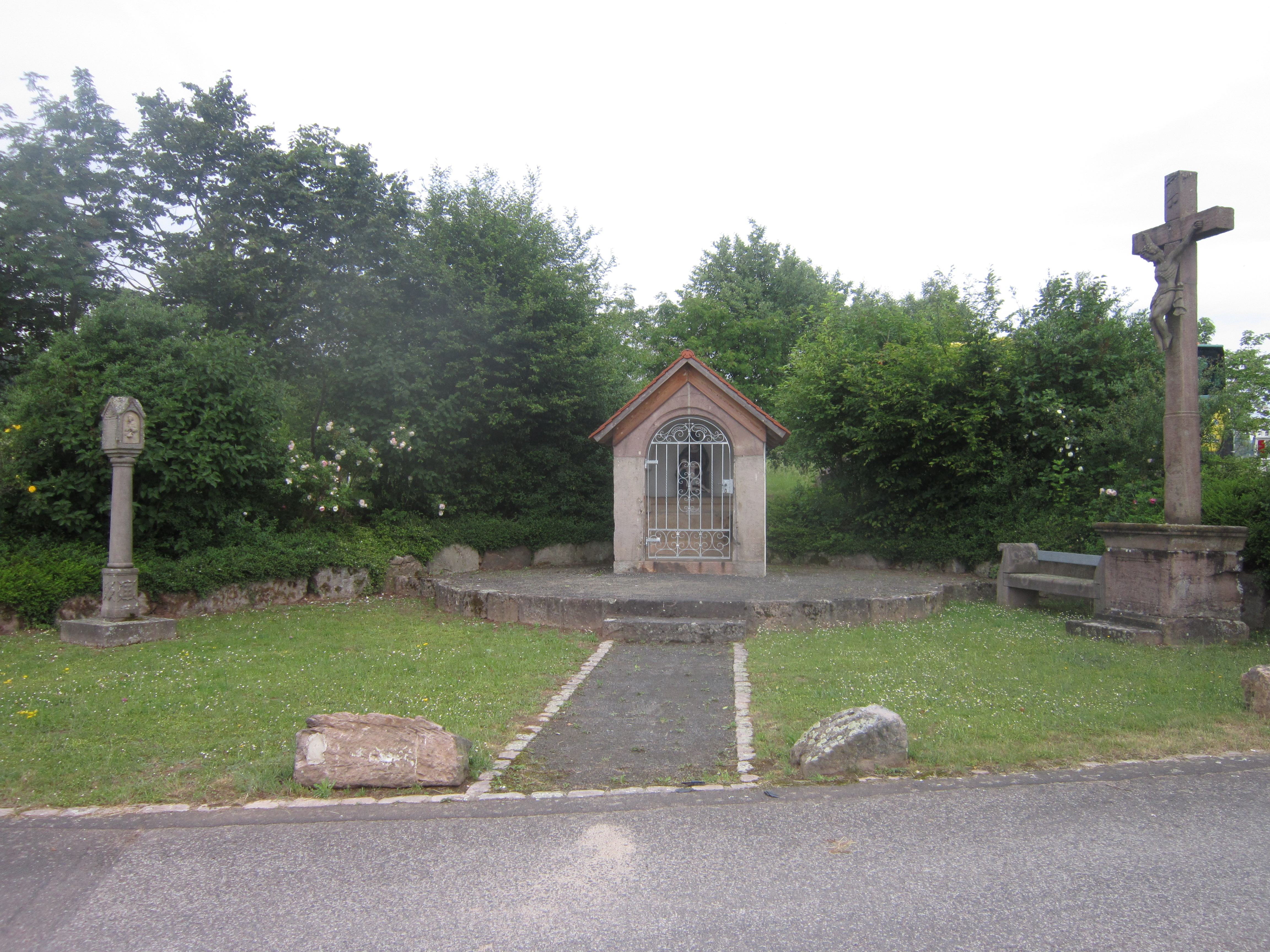 Chapel in the German town of Burkardroth in Lower Franconia (Bavaria).